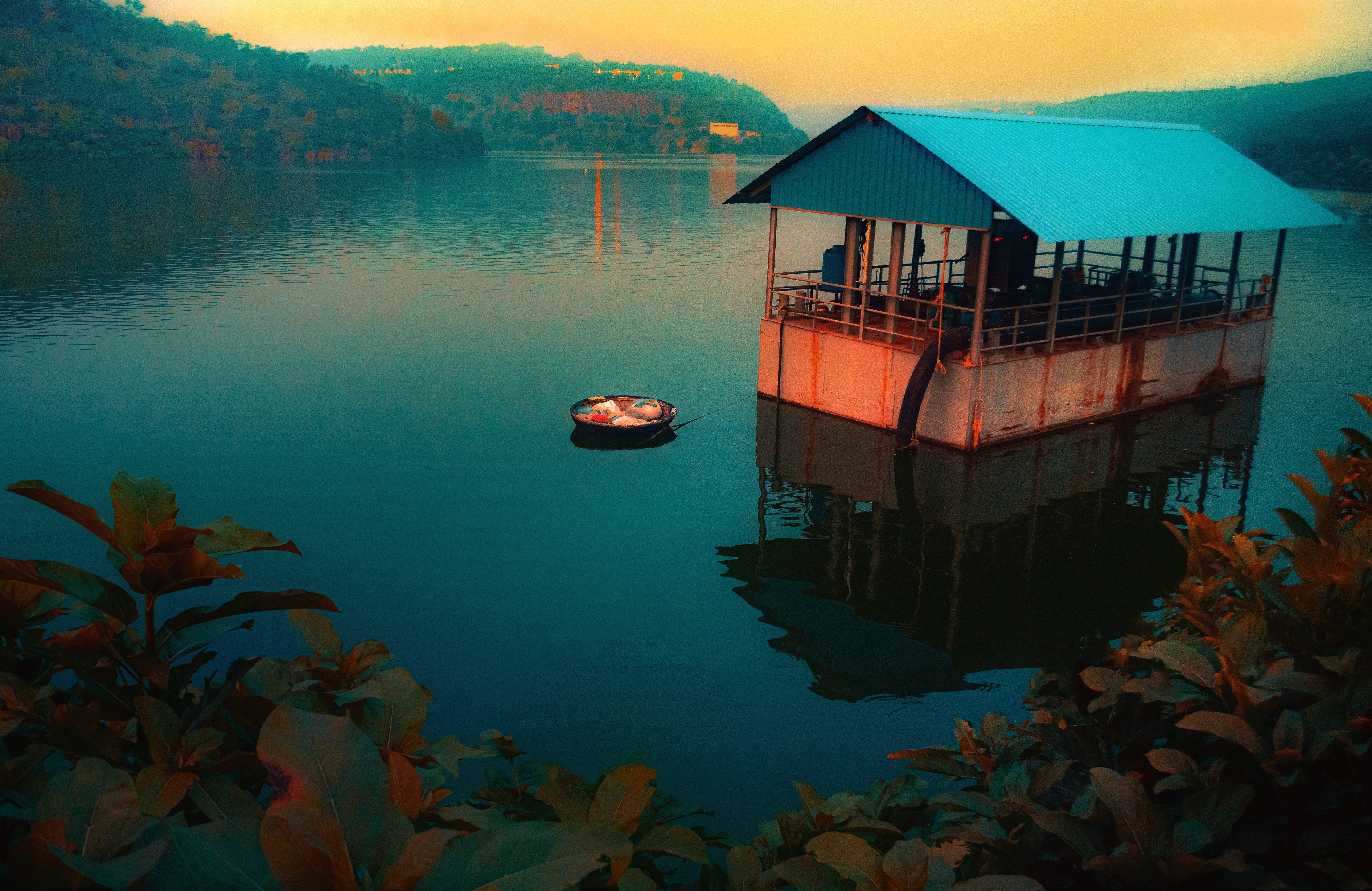 Deck in Backwaters of Srisailam